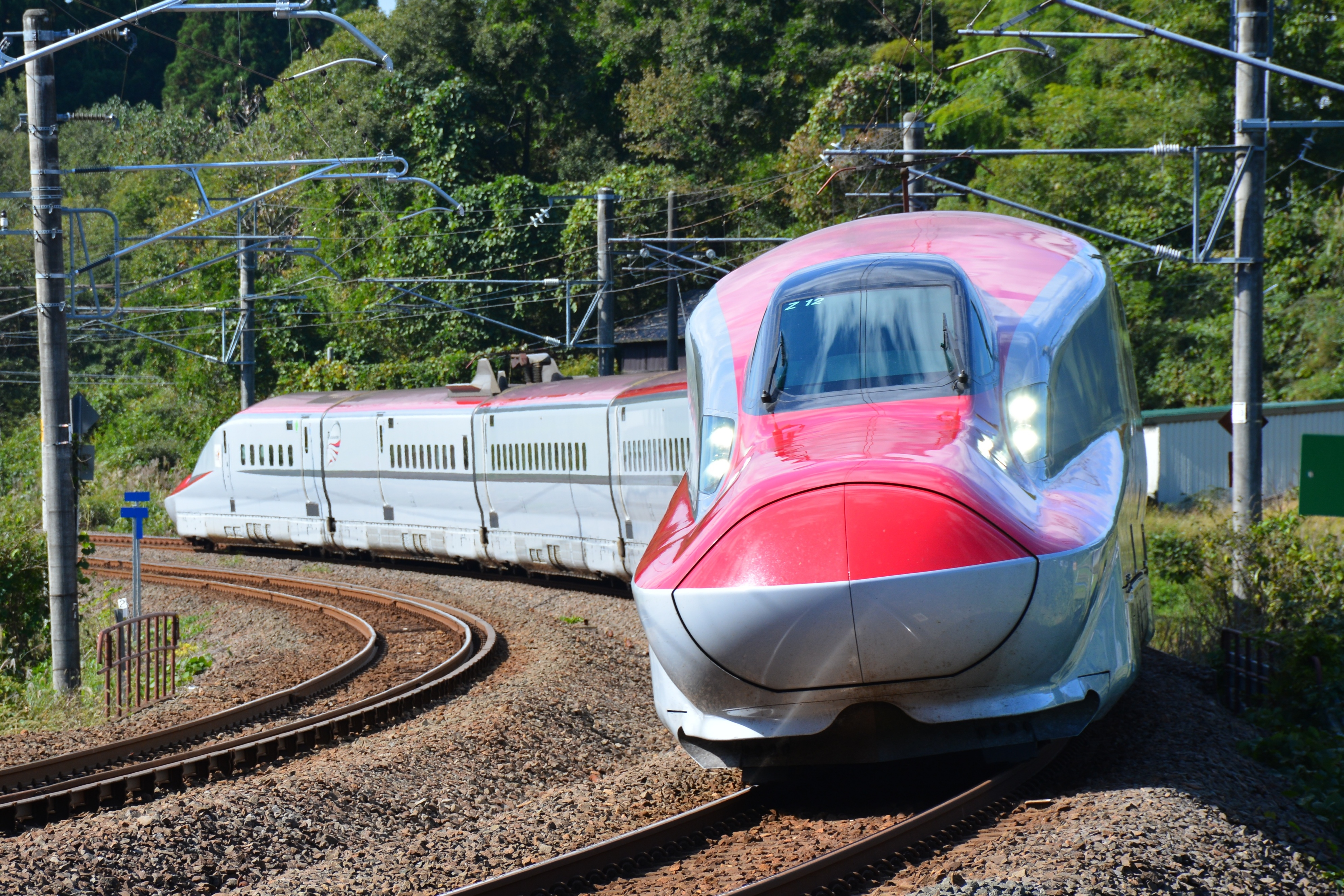 JR East E6 series shinkansen set Z12 on the Akita Shinkansen Komachi No. 16 service from Akita to Tokyo, on the Ou Main Line between Ugo-Sakai and Obarino stations